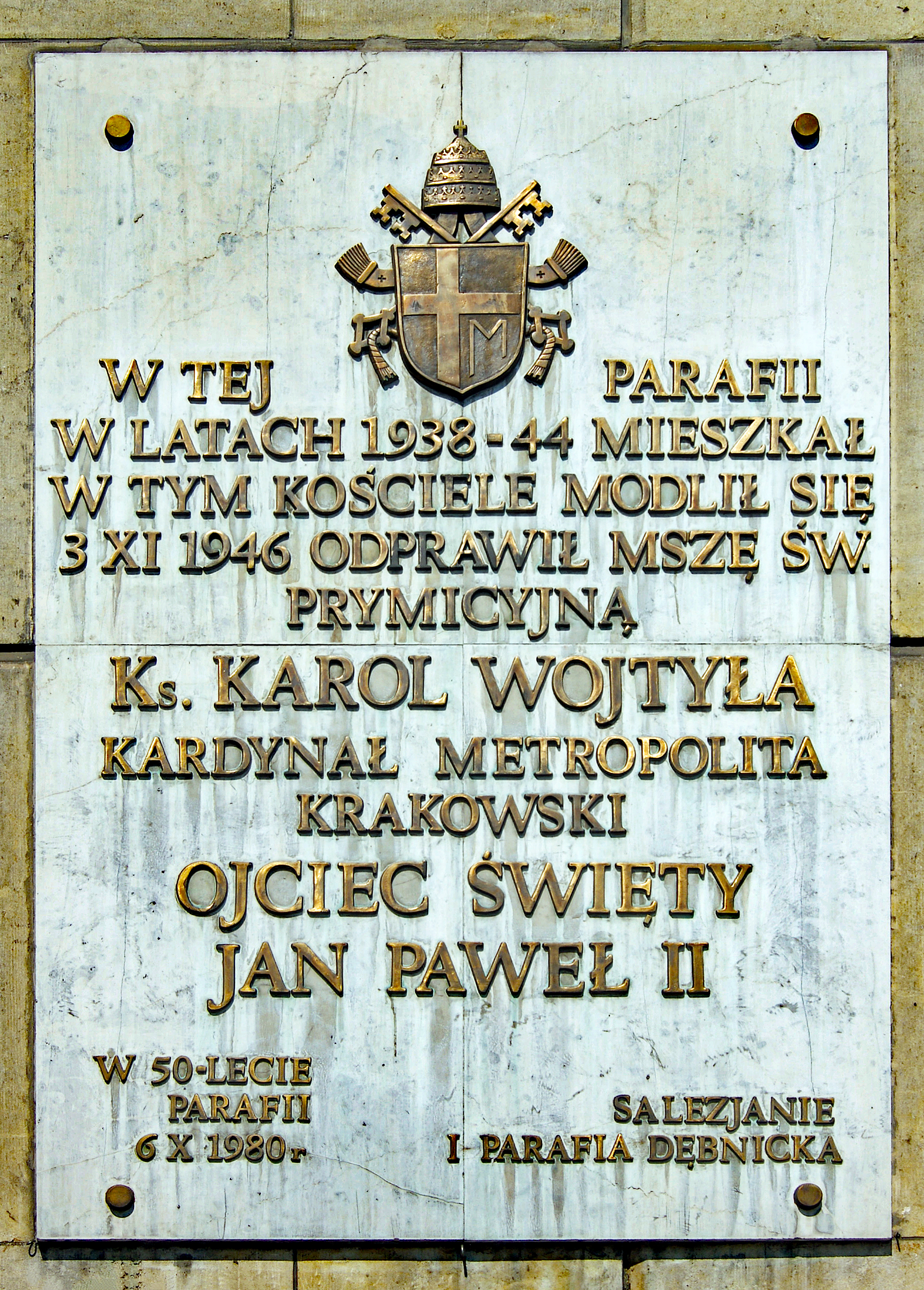 StStanislaus Kostka Church, 6 Konfederacka street (commemorative tablet),Debniki,Krakow,Poland